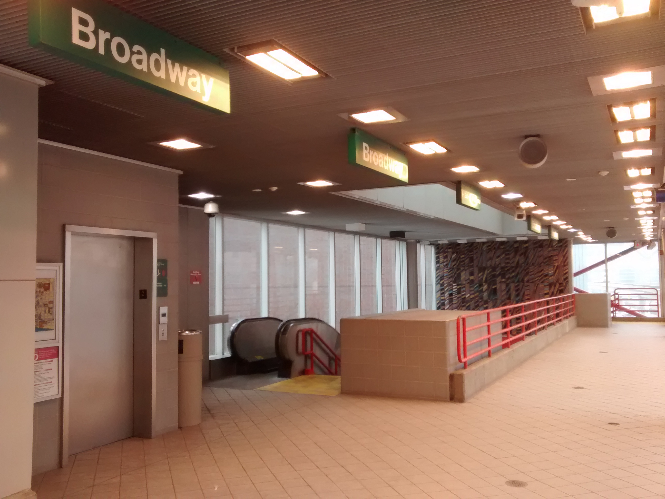 Broadway (Detroit People Mover)